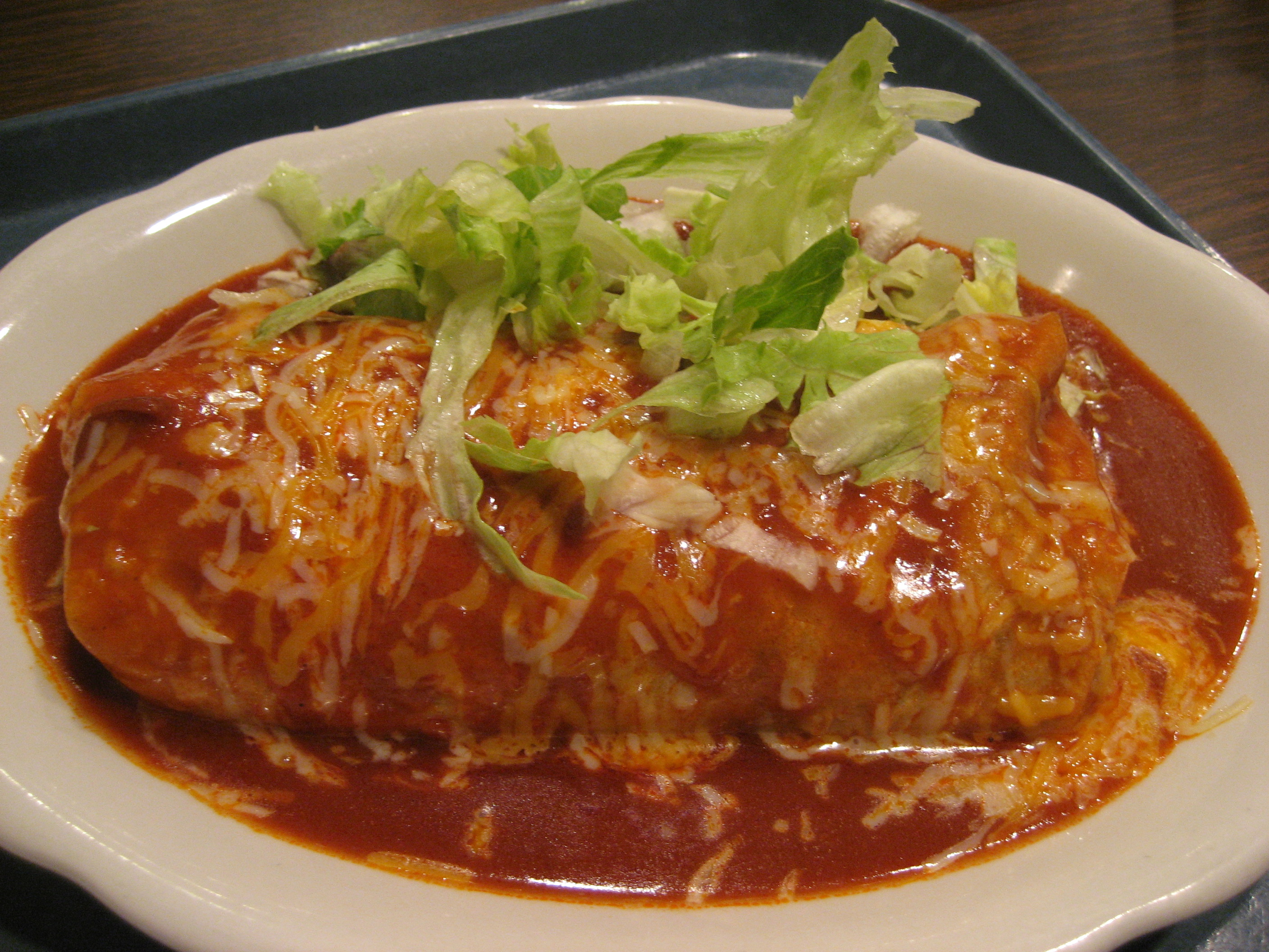 Wet Burrito from Diana's